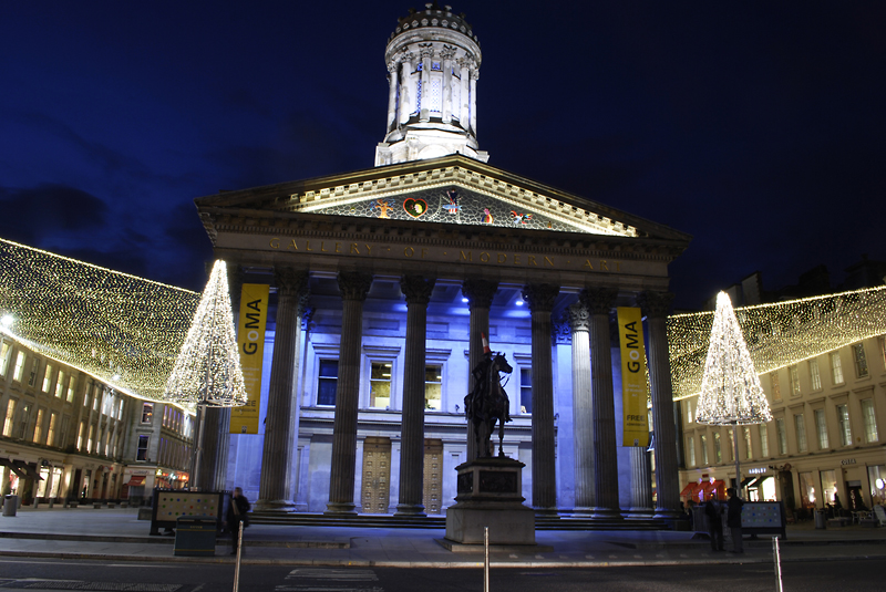 Glasgow's Gallery of Modern Art (GoMA), in Royal Exchange Square facing onto Queen Street.